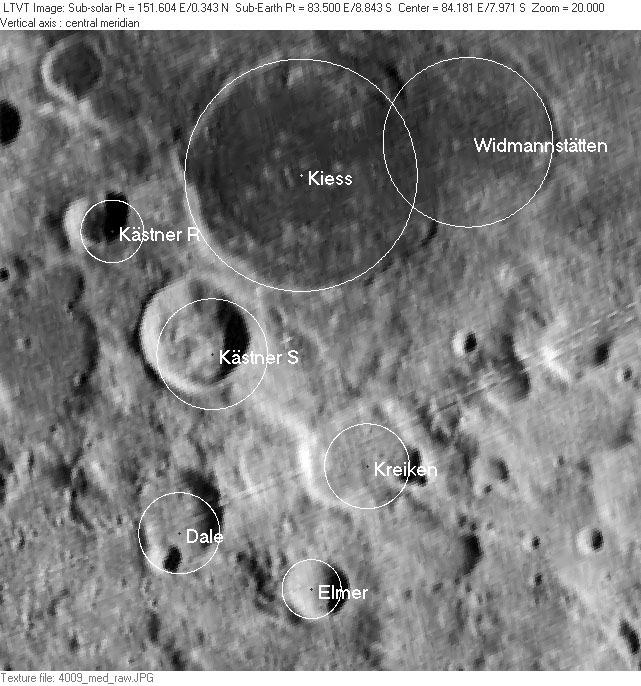 Area south of Mare Smythii with craters Kiess, Widmanstätten, Kreiken, Dale and Elmer. Detail from Lunar Orbiter IV-009M. High resolution scan from the USGS Lunar Orbiter Digitization Project remapped to a north-up aerial view by LTVT.